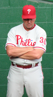 Description Rich Dubee, pitching coach for the Phillies, observing a bullpen warm-up on July 31, 2008 Date1 August 2008SourceI created this work entirely by myself.AuthorKV5 • Squawk box • Fight on! 15:12, 1 August 2008 . . Killervogel5 . . 212×387 (122 KB) Rich Dubee, pitching coach for the Phillies, observing a bullpen warm-up on July 31, 2008